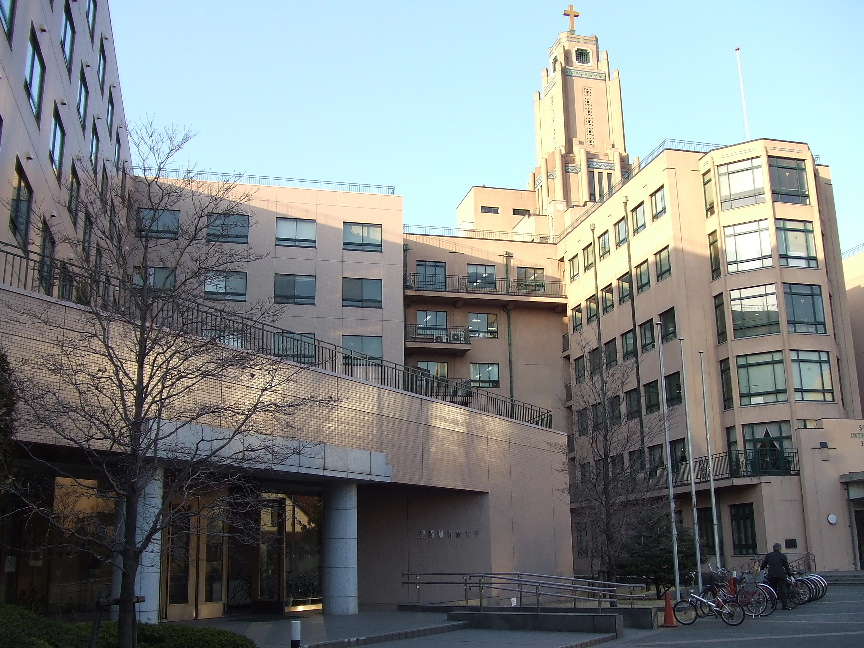 Photo of St. Luke's College of Nursing, Tokyo.